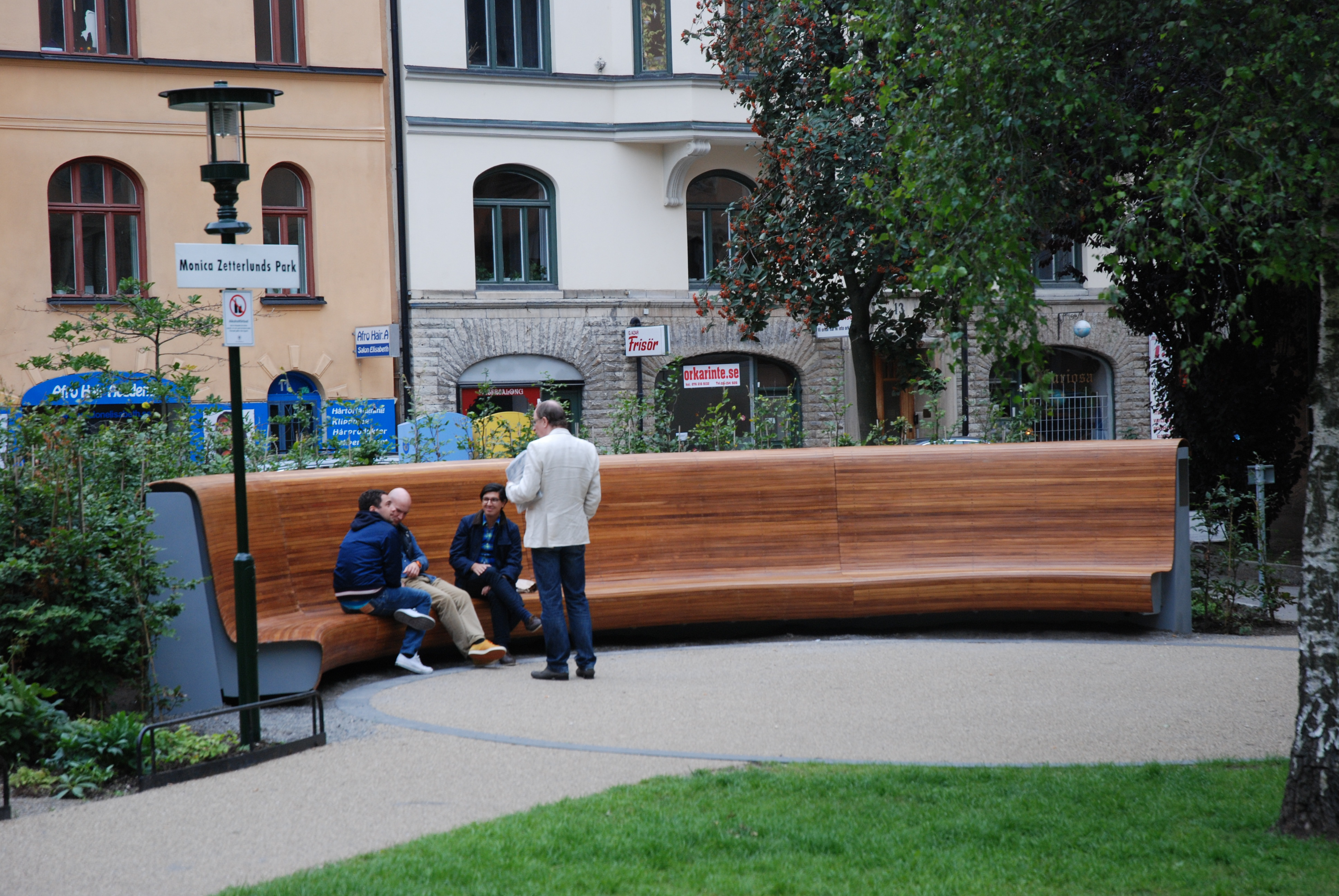 Fredrik Wretmans parksoffa med ljud i Monica Zetterlunds park i Stockholm